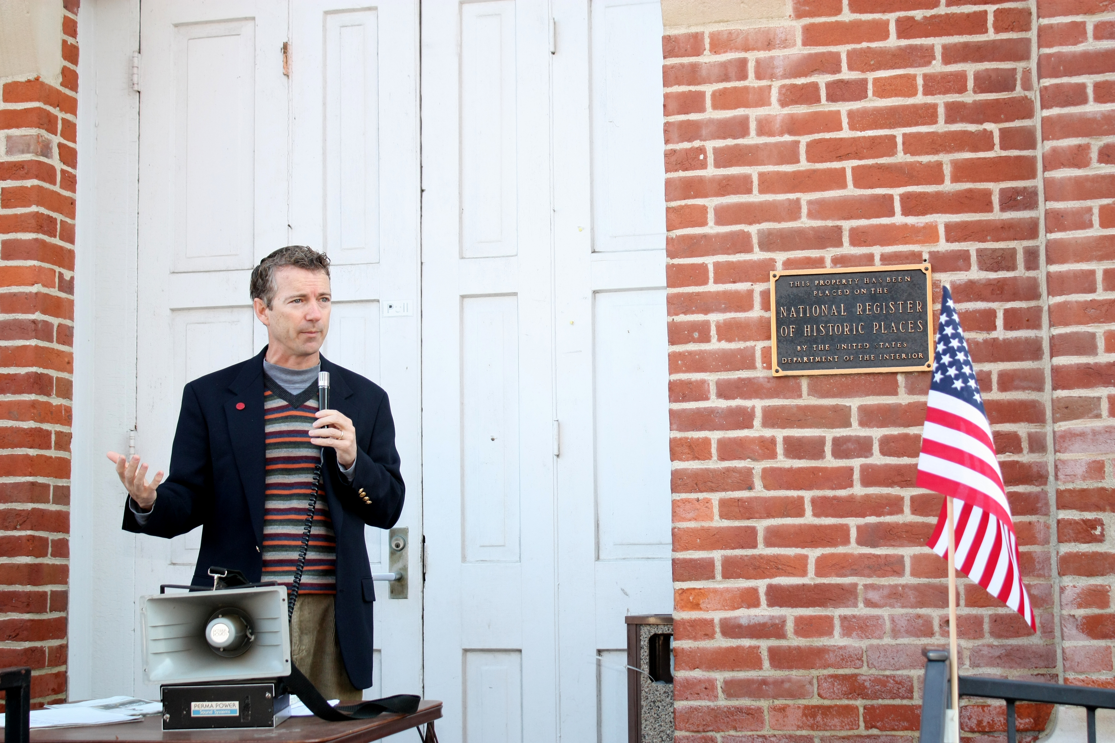 United States Senate candidate Rand Paul, at a town hall meeting in Hawesville, Kentucky.